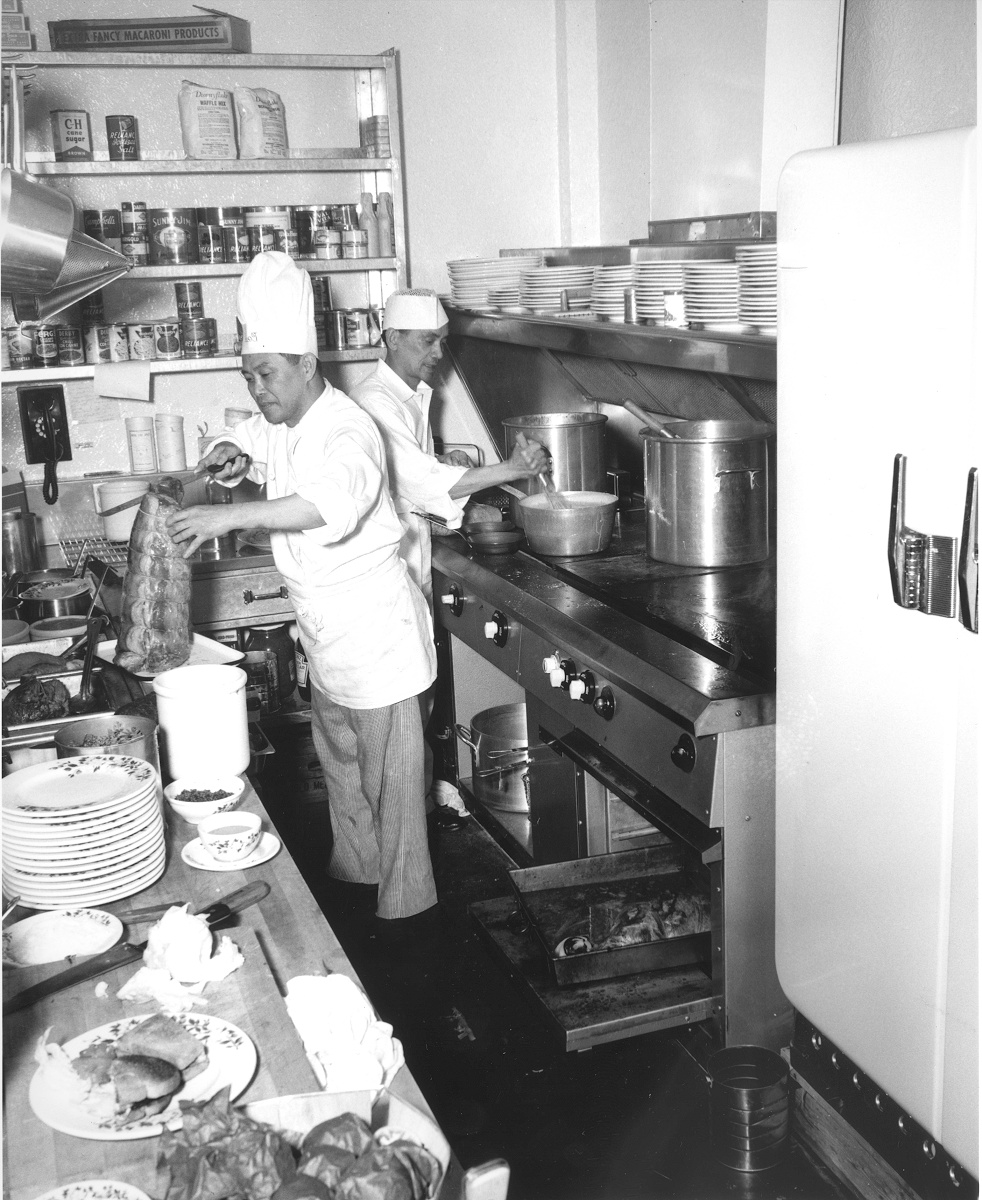 Cooks at the Northern Lights Dining Room, 1125 Third Avenue, Seattle, Washington, 1952.